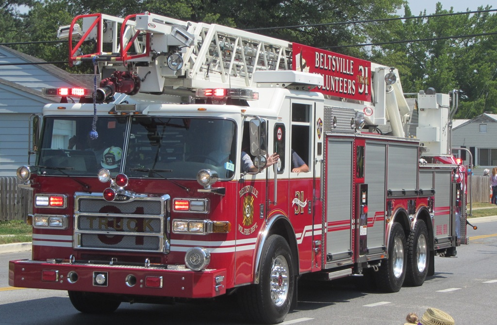 Beltsville VFD Tower 31